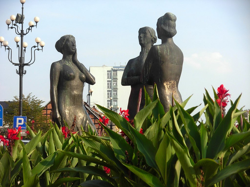 Trzy Gracje monument in Bydgoszcz